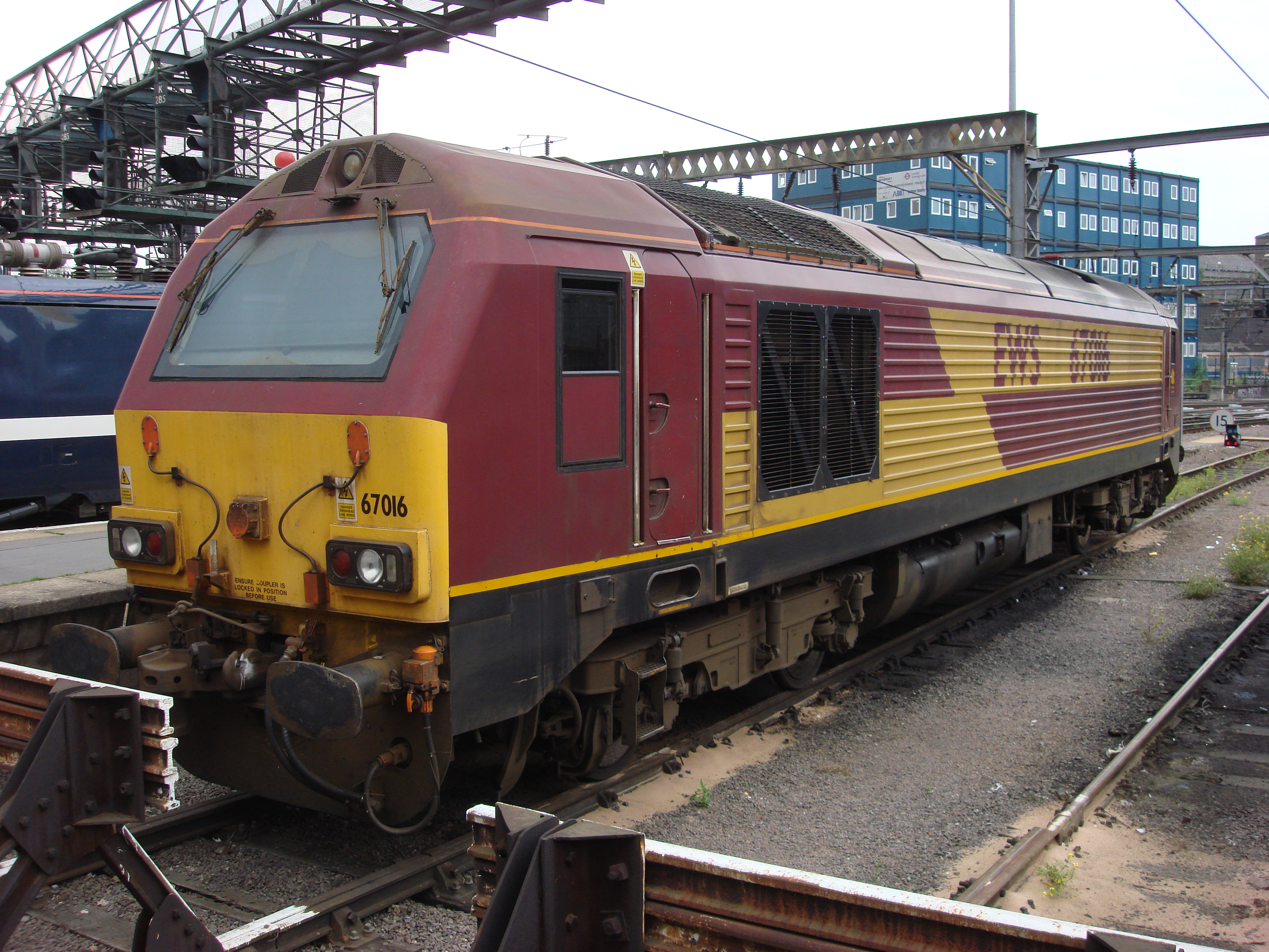 67016 at Kings Cross